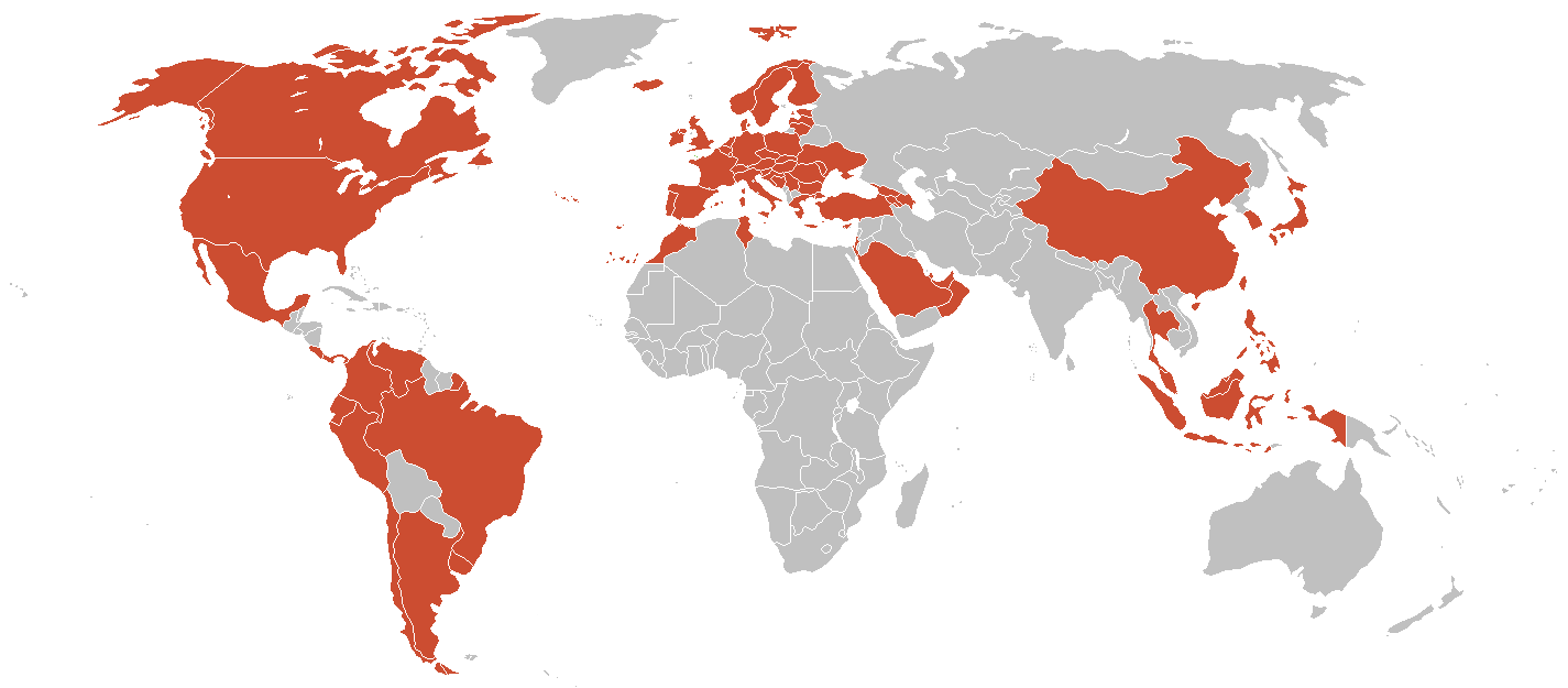 The Zara stores in the world (Updated 2014)